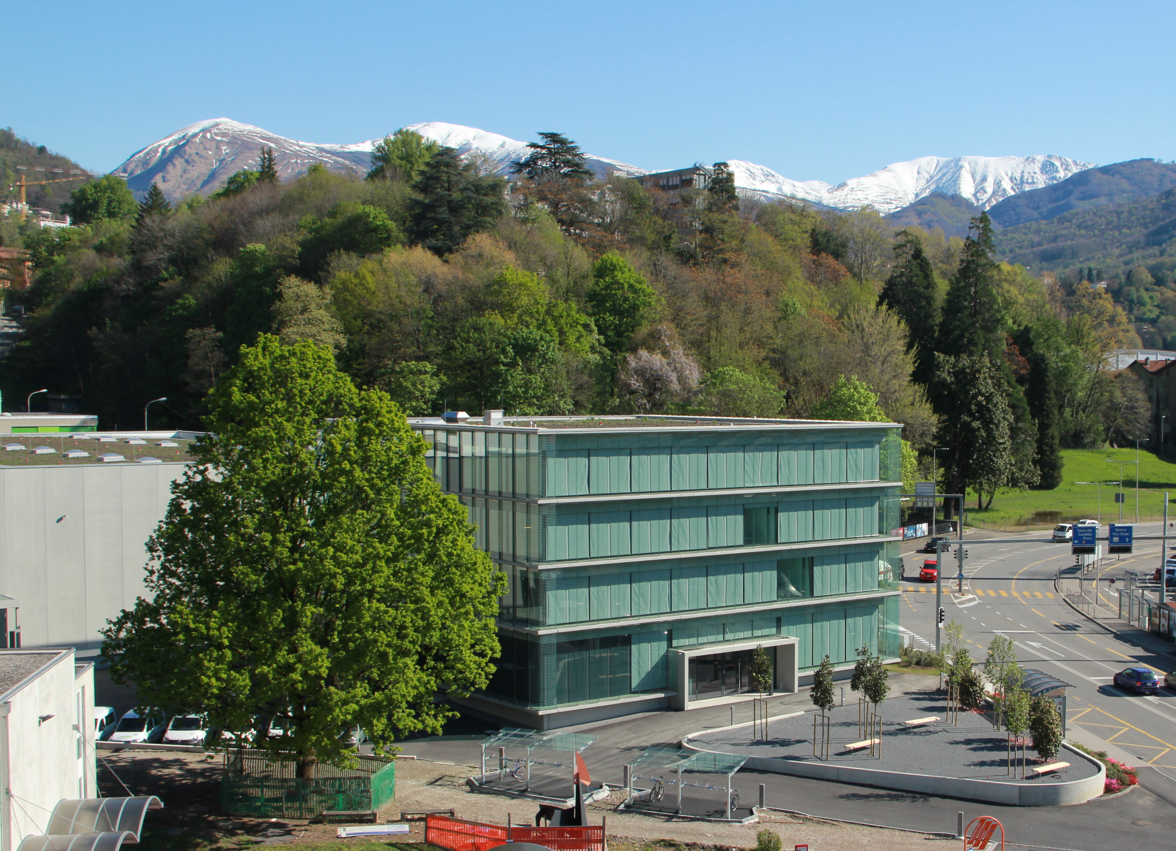 View from the adjacent fire department on the office building of the Swiss National Supercomputing Centre CSCS. A part of the CSCS computer building is visible on the left.